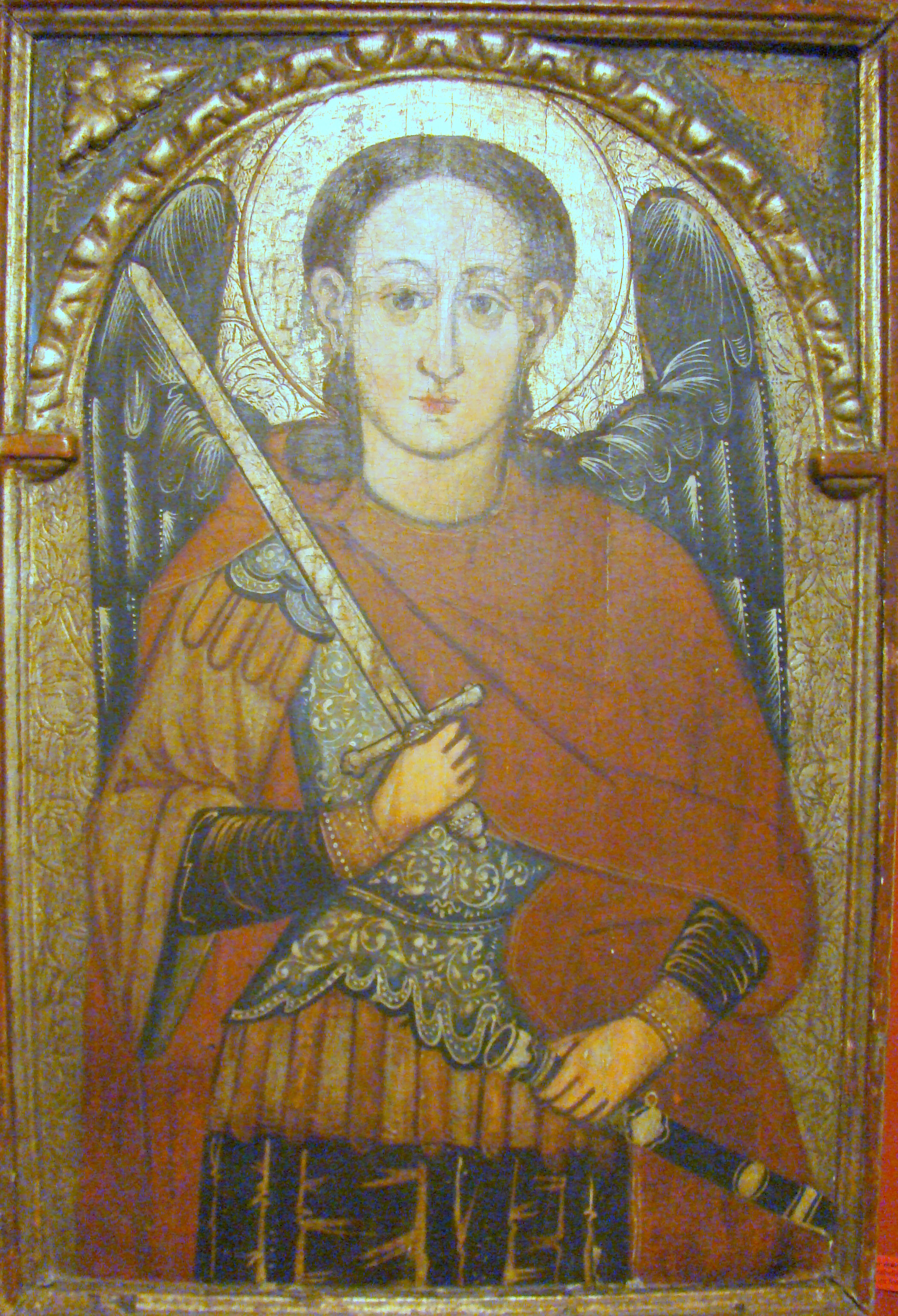 Icon that belonged to the Wooden church of the Nativity of Mary in Rona de Jos, Maramureș county, Romania